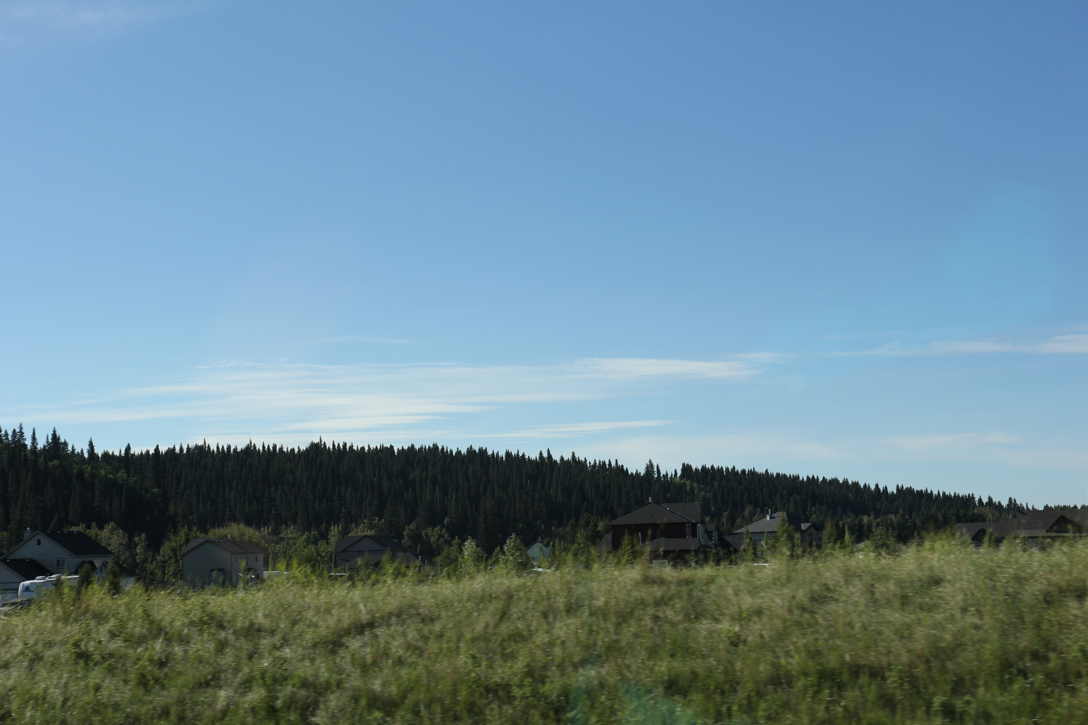 Panorama of Priddis, Alberta. Photographed from the Cowboy Trail / Alberta Hightway 22